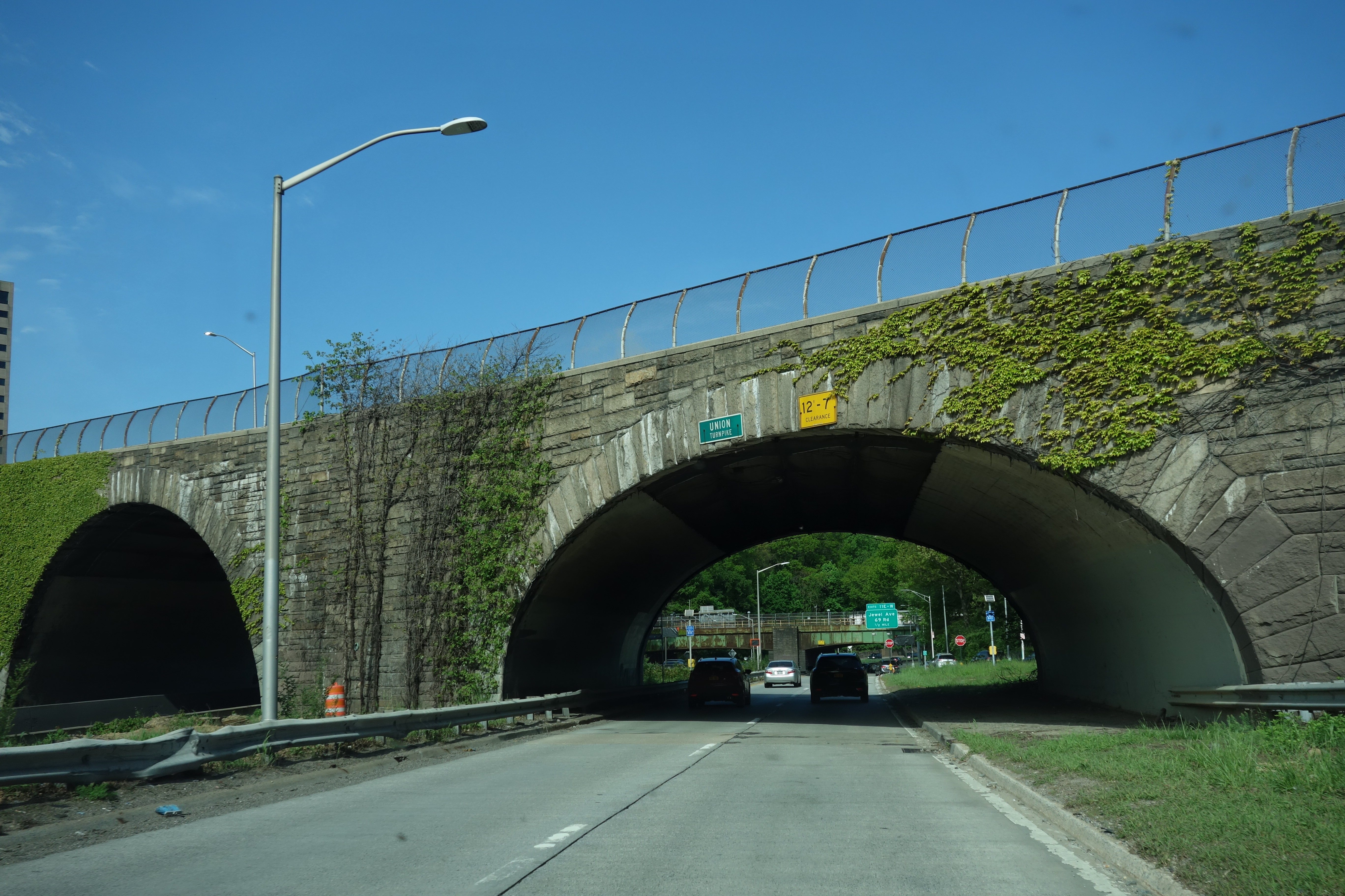 Traveling west on the Grand Central Parkway underneath westbound Union Turnpike in Kew Gardens Hills, Queens.